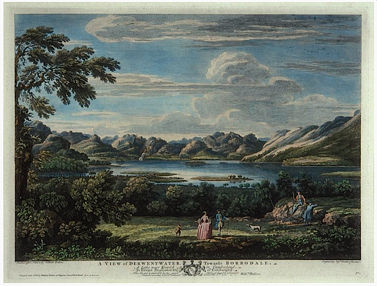 A View of Derwentwater. Towards Borrowdale. A Lake near Keswick in Cumberland, hand colored etching, printed in London, by William Bellers, Poppins Court, Fleet Street.